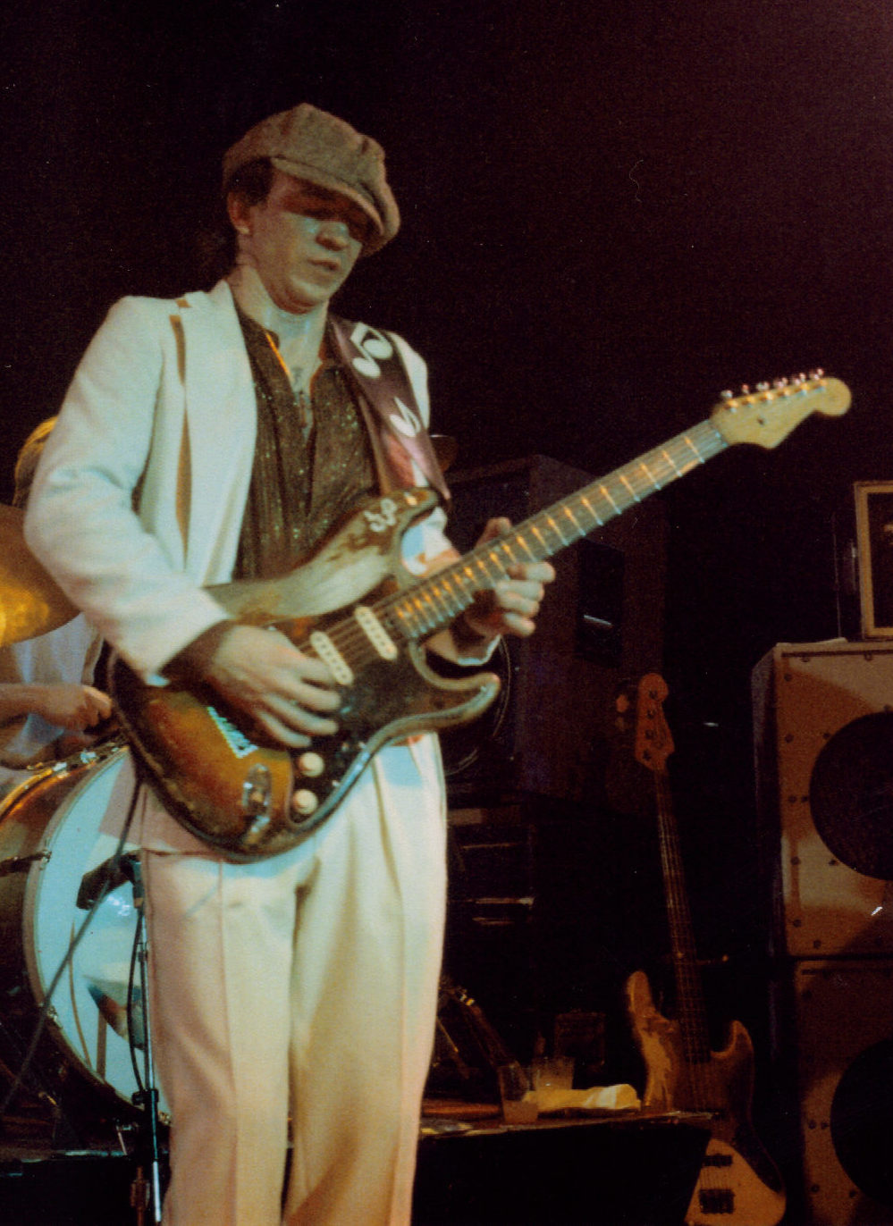 Stevie Ray Vaughan & Double Trouble Played the Ritz Theater in Austin, Texas on March 18th & 19th 1983.